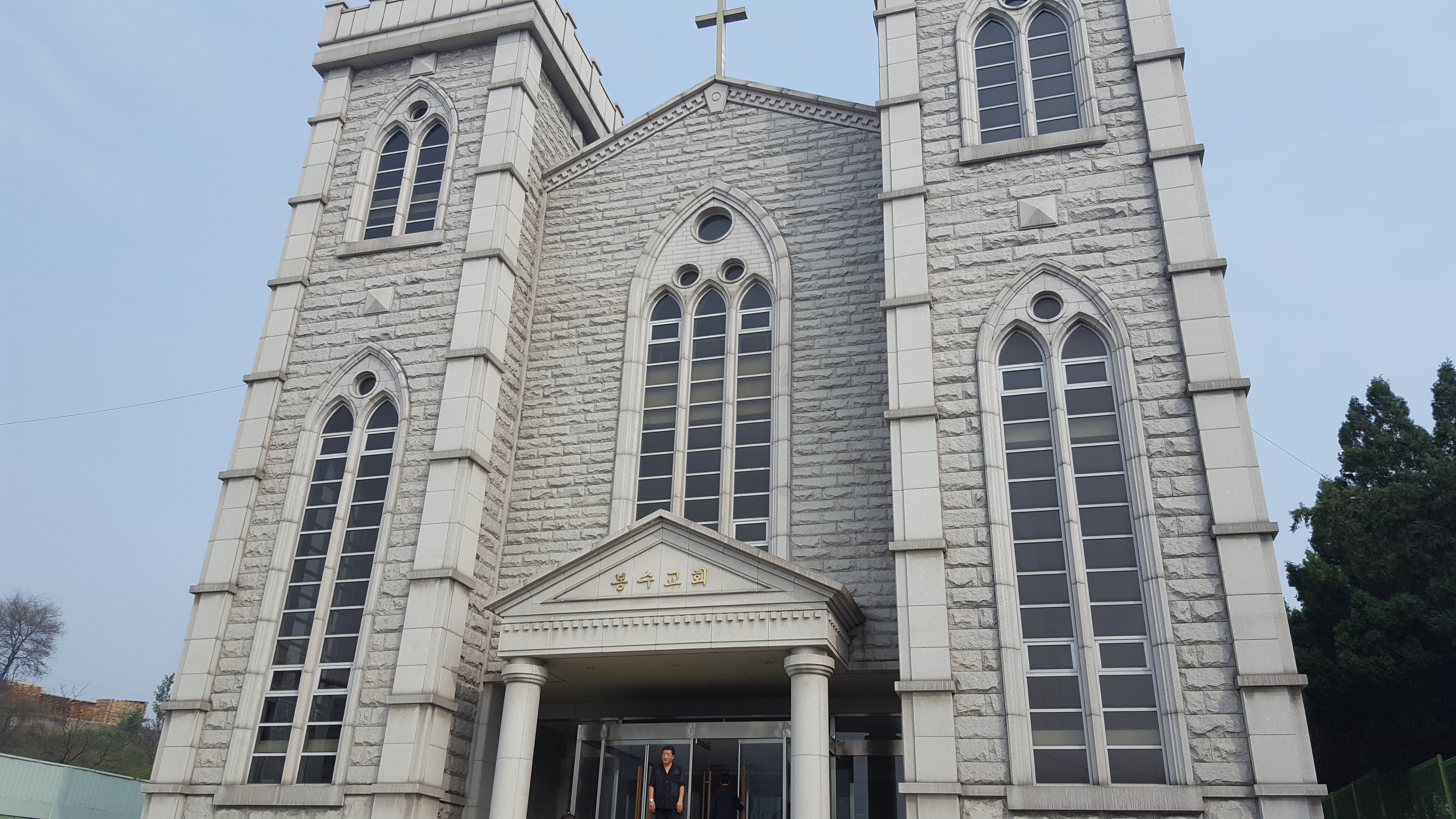 Pongsu Church in Pyongyang